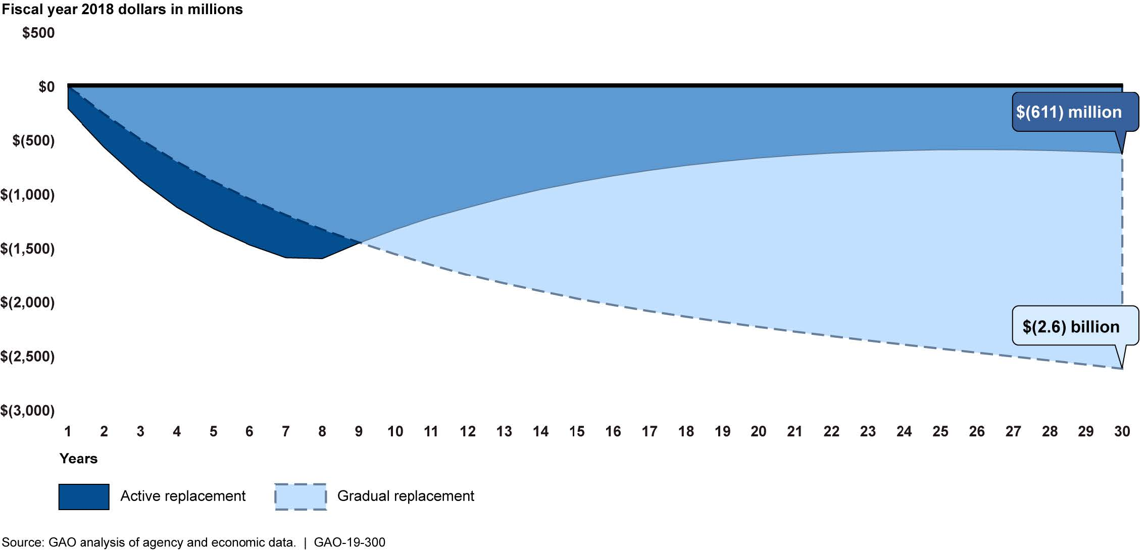 This image is excerpted from a U.S. GAO report: U.S. CURRENCY: Financial Benefit of Switching to a $1 Coin Is Unlikely, but Changing Coin Metal Content Could Result in Cost Savings Notes: Under a gradual replacement scenario, the Federal Reserve would replace unfit $1 notes—that is, damaged or soiled notes removed from circulation—with $1 coins. Under an active replacement scenario, the Federal Reserve would replace notes with coins irrespective of the notes' condition. Present value uses a rate, known as the discount rate, to convert the value of payments or receipts expected in future years to today’s value, taking into account that the further into the future an amount is paid or received, the smaller its value is today.